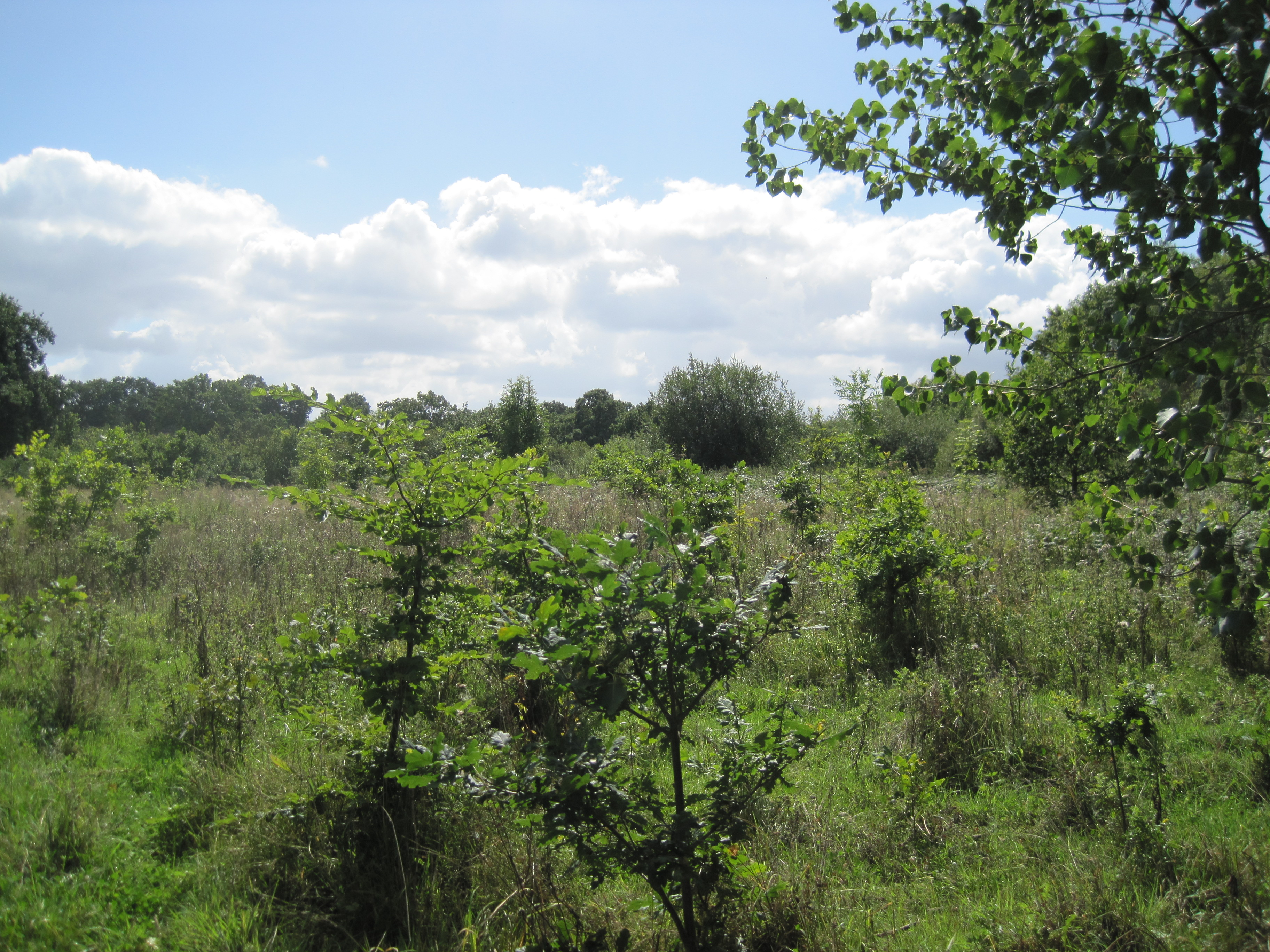 Field in Burtonhole Lane and Pasture Local Nature Reserve, Mill Hill, Barnet, London